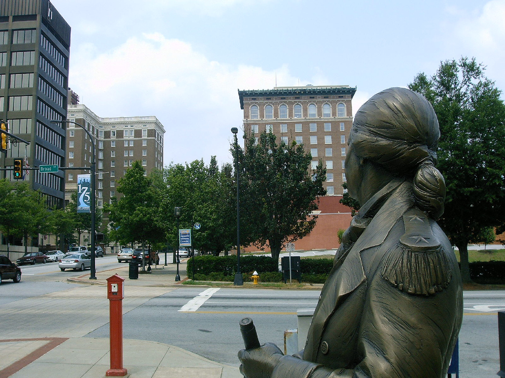 Statue of Greenville, SC's namesake, General Nathaniel Greene looks northward to Greenville's Main St. and City Hall from its perch outside the Greenville News building and the Greenville Freedom monument. The Greene statue is a 7 ft. bronze statue unveiled earlier this summer, july 2006.